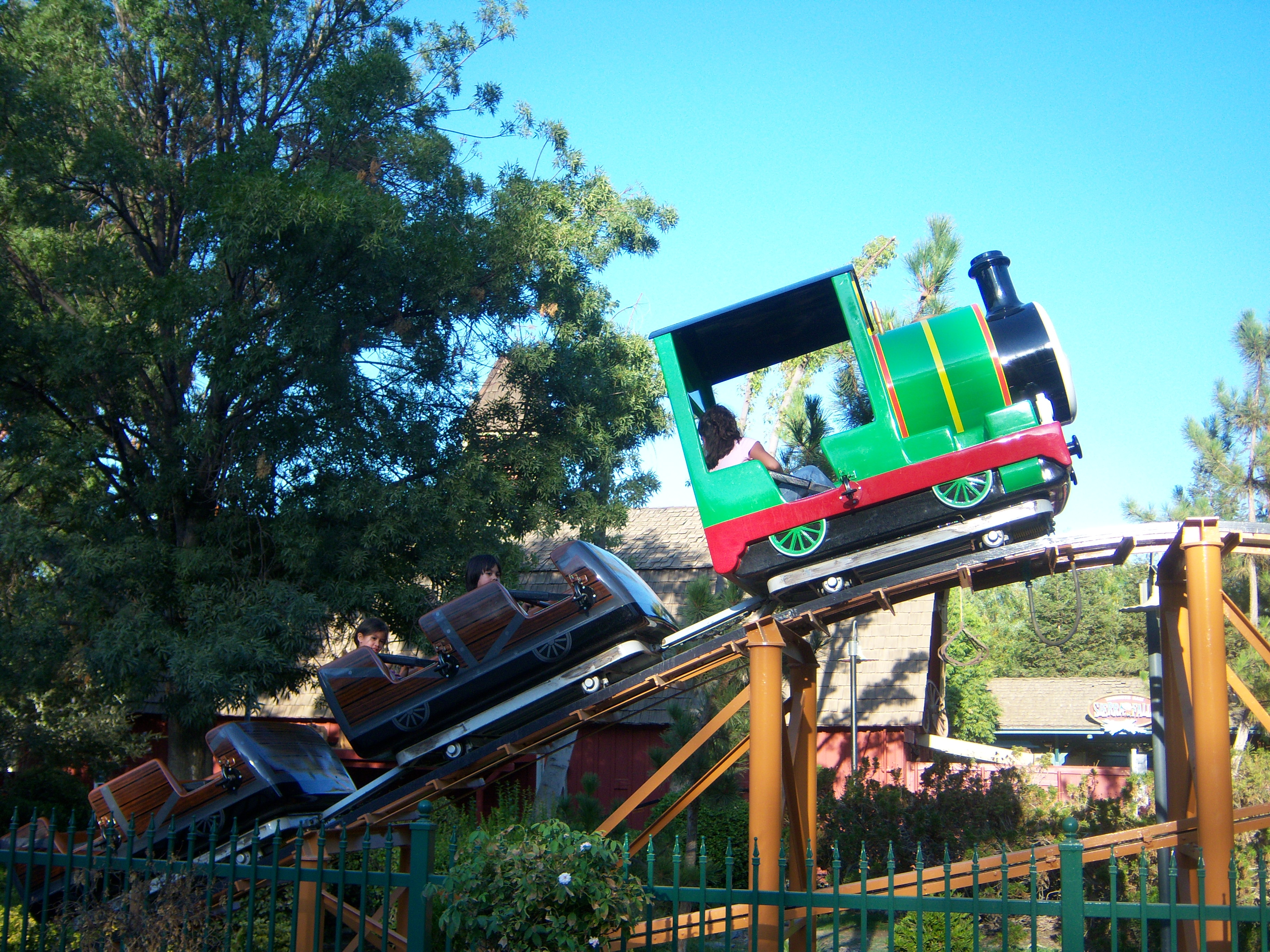 Alex's Company Picknik